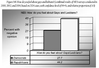 In the United States, Democratic vs. Republican attitudes about gays and lesbians. According to author Joseph Fried, this graphic may utilize data extracted from one of two large data bases: the American National Election Studies (NES) and the General Social Surveys (GSS), the original sources of the data. The related analyses and conclusions are the responsibility of the author.